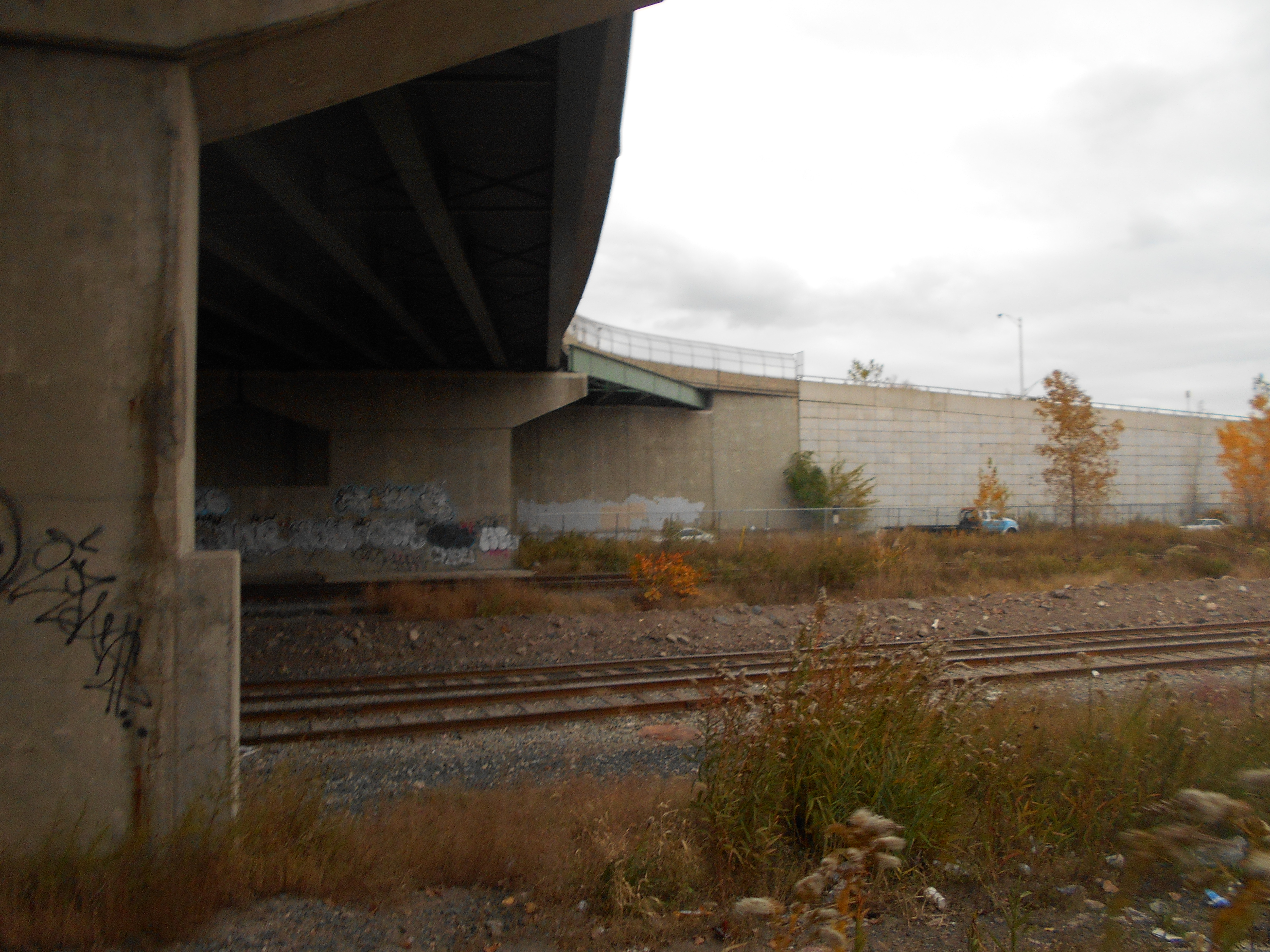 The site of the former North Bergen station in North Bergen, New Jersey.